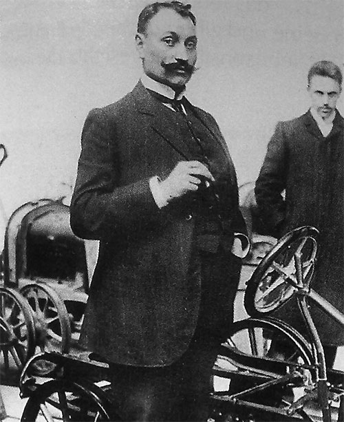 Louis_Delâge founder of Delage